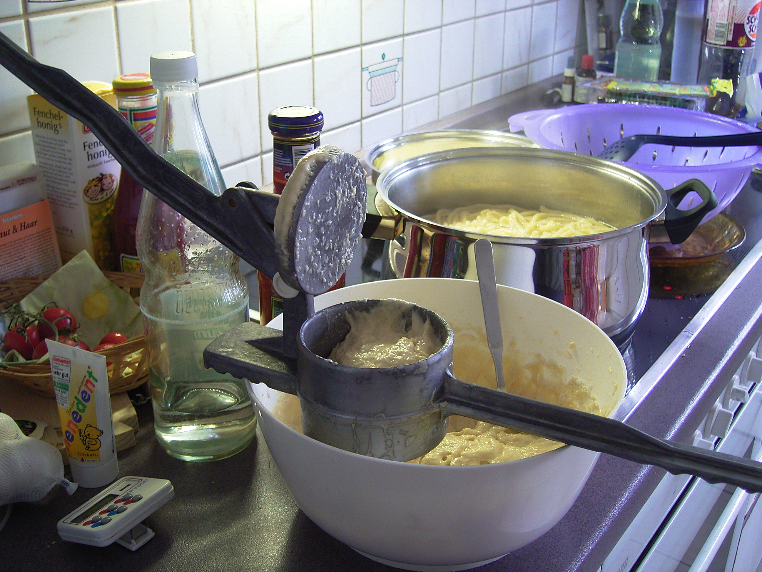 A Tool to make Spaetzle during the Filling